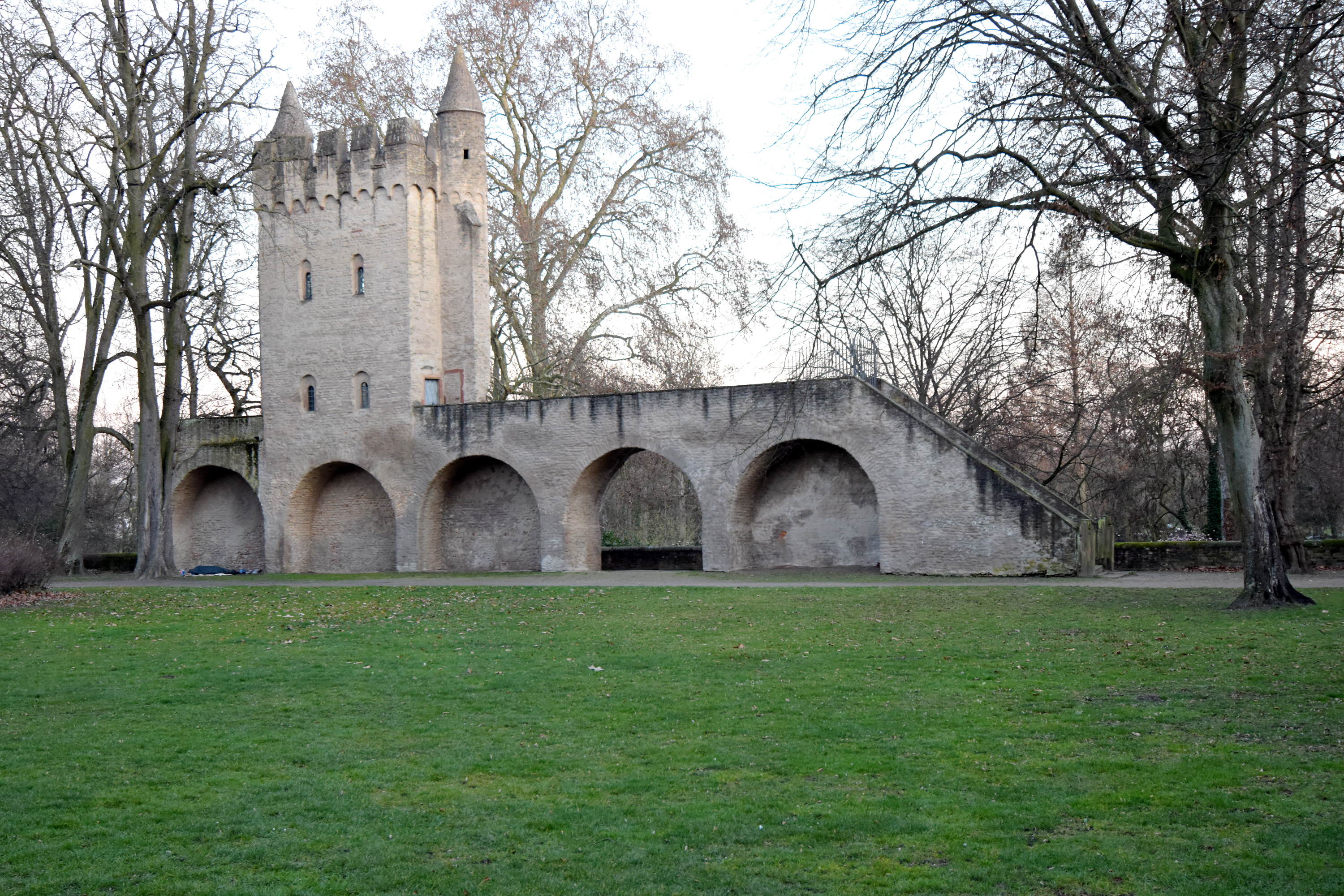 Speyer Cathedral, Heidentürmchen